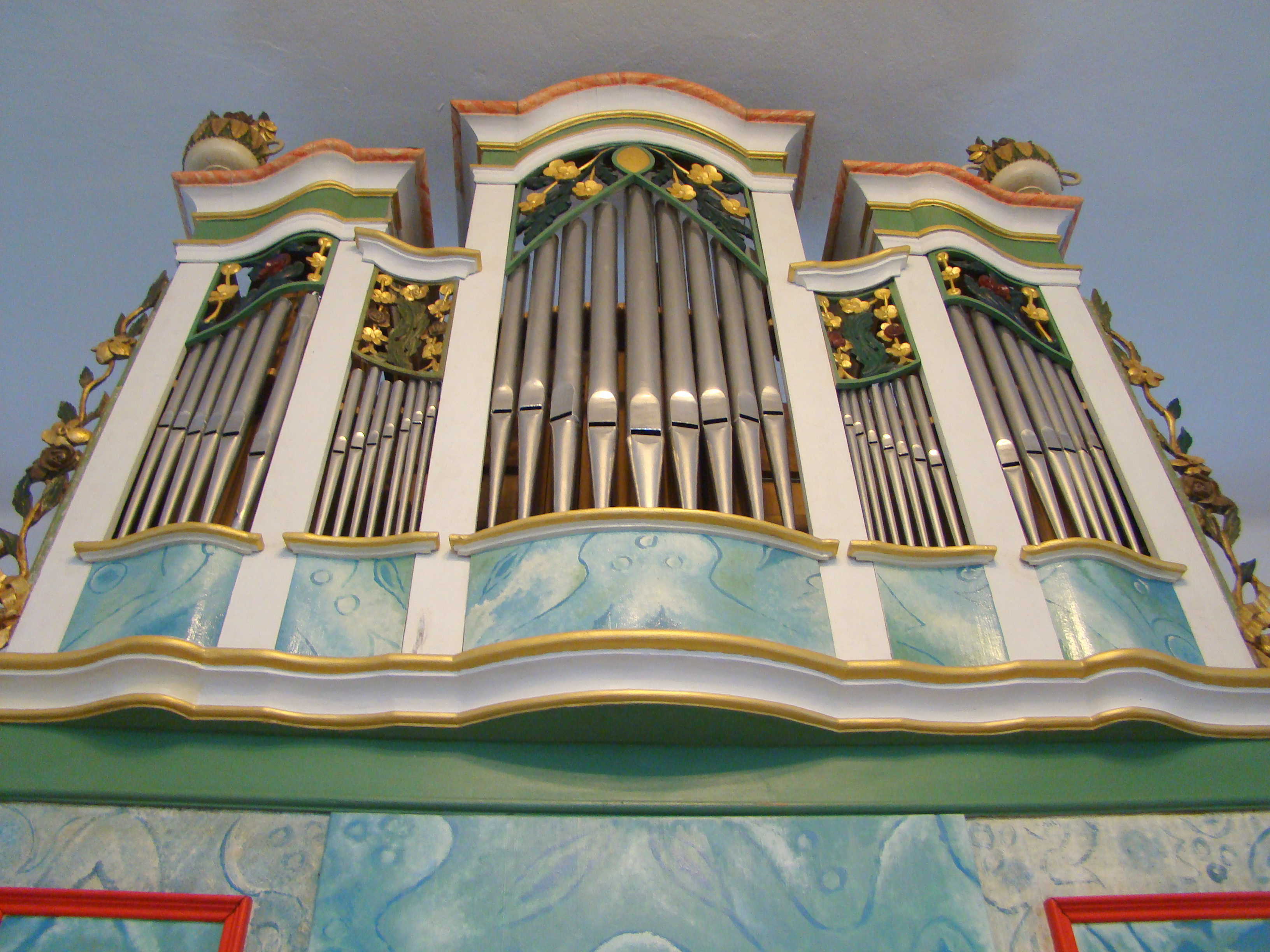 Reformed church in Hoghiz, Brașov county, Romania